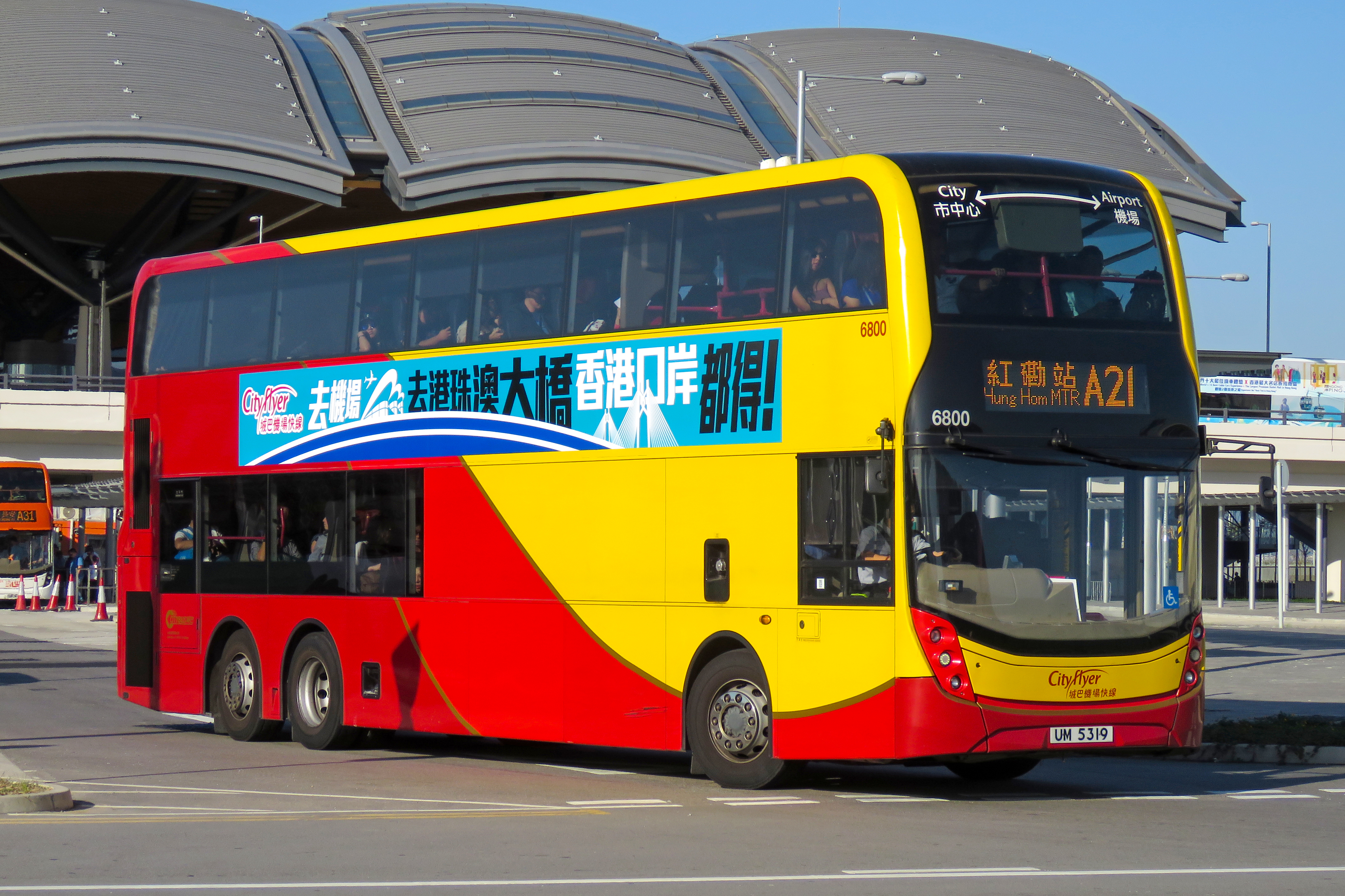 More full-wraps are supposed to be on 68xx, especially airline advertisement such as China Eastern's like 8014.